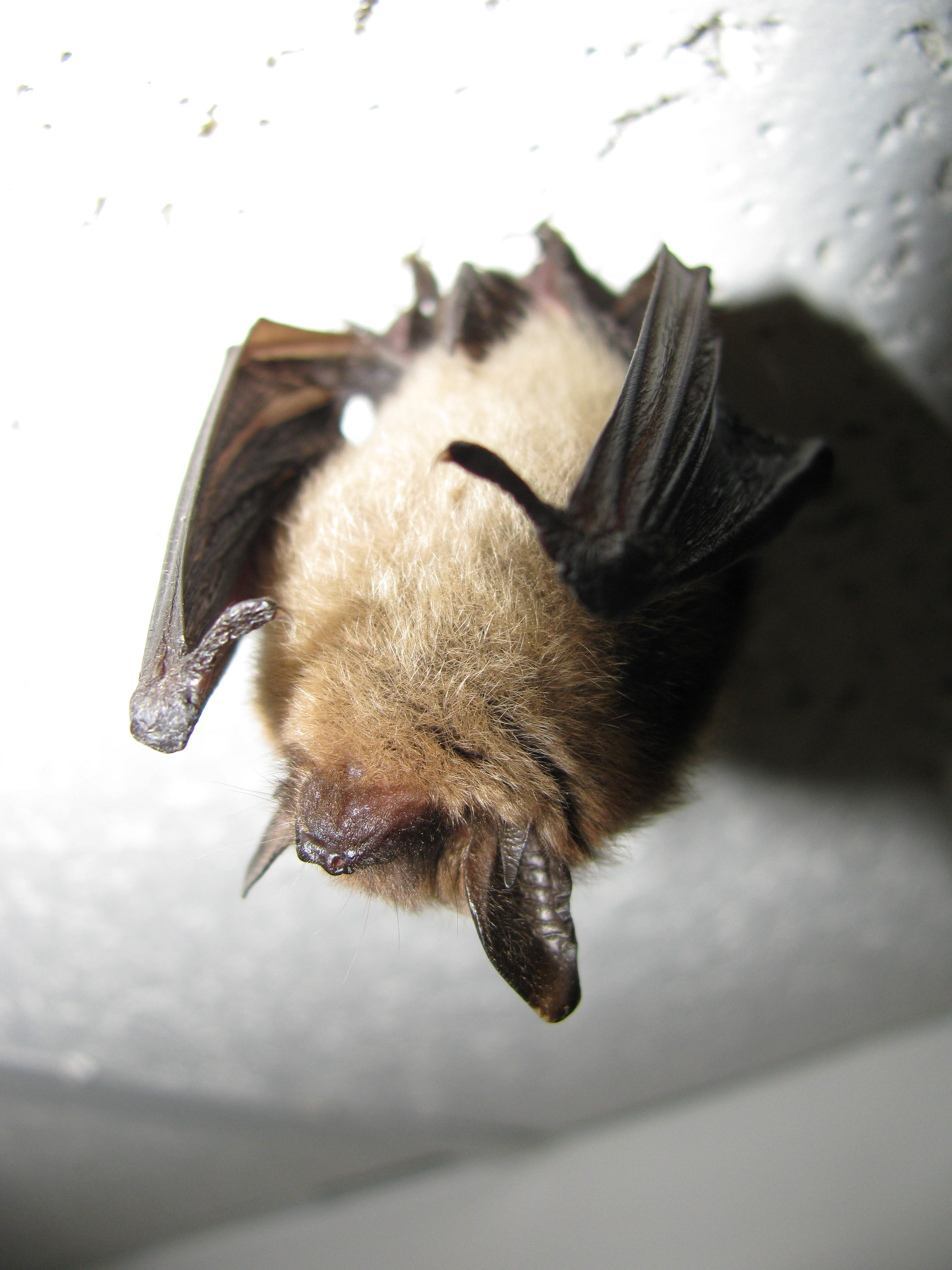 Myotis septentrionalis (Northern long-eared myotis) roosting on a ceiling tile. This specimen was found in a church in Concord New Hampshire.